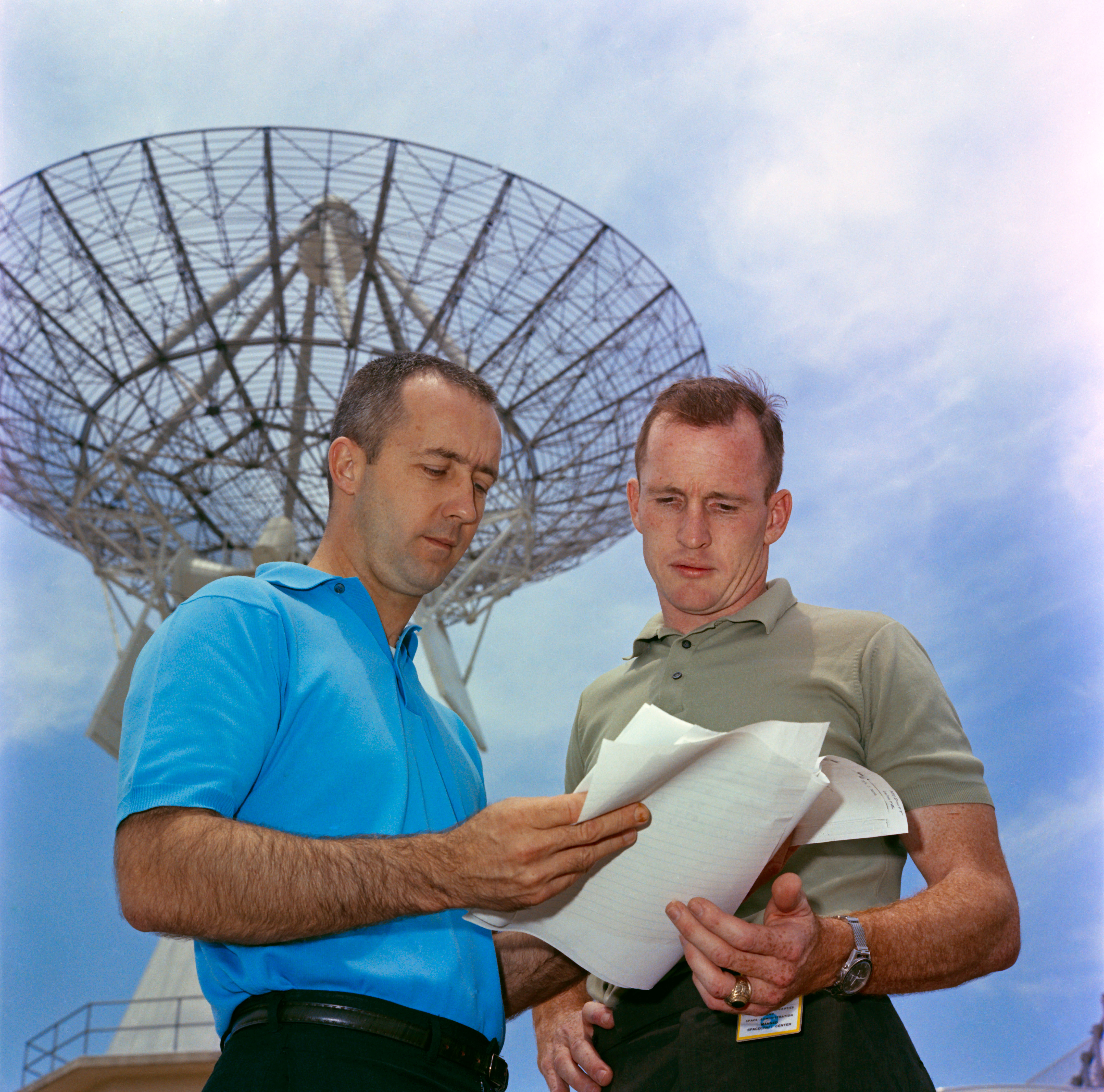 S65-29655 (7 May 1965) --- Astronauts James A. McDivitt (left) and Edward H. White II, Gemini-4 prime crew, are shown looking over training plans at Cape Kennedy during prelaunch preparations. The NASA Headquarters alternative photo number is 65-H-275.